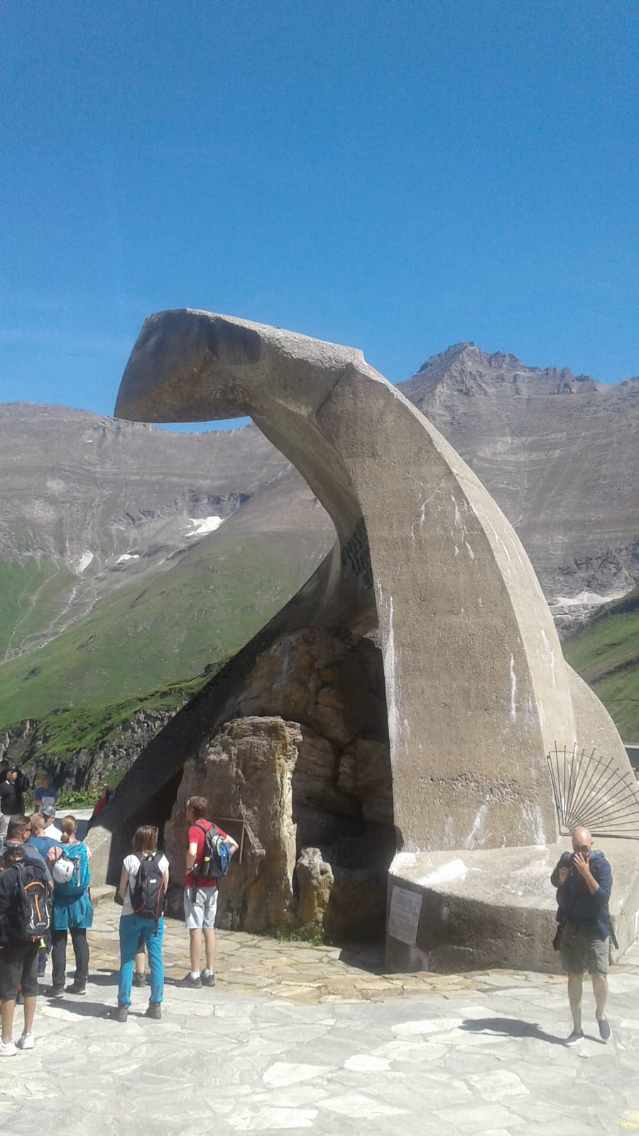 A memorial to the forced-labor workers who perished while building the Kaprun-Kitzsteinhorn dam during WWII